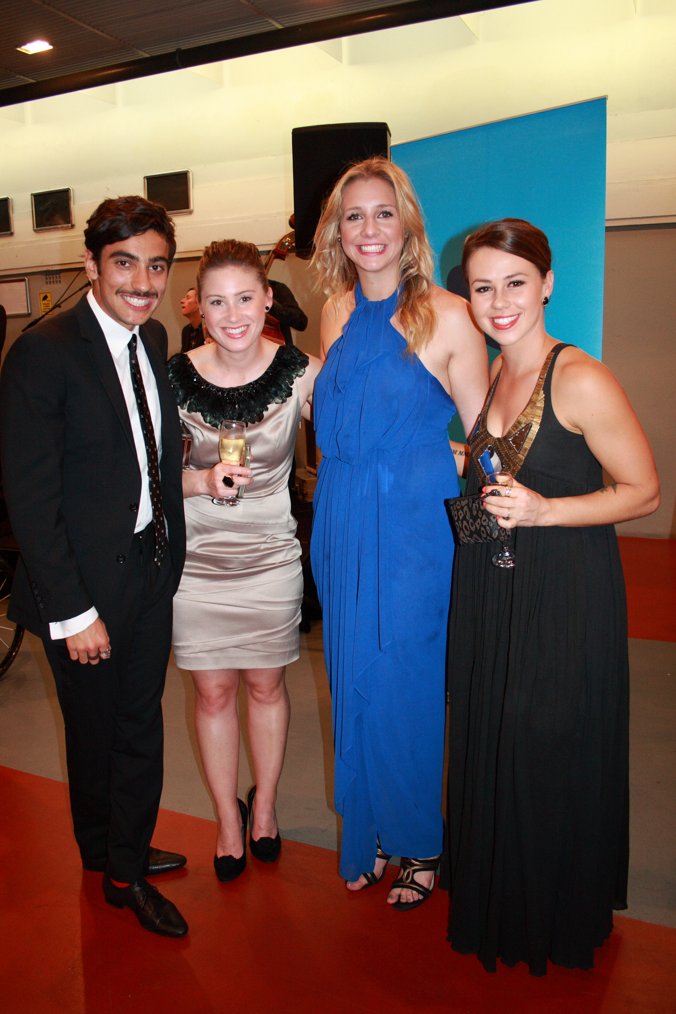 Australian Paralympian of the Year 2012 ceremony at the Hordern Pavilion, Sydney, Australia.